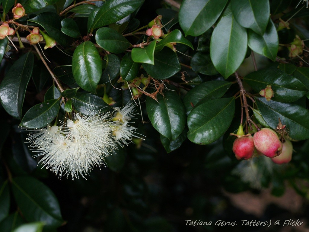 'Scrub cherry', with blossom and fruits. Australian native plant. Berries are edible, Australians call them 'Lilly-pilly'